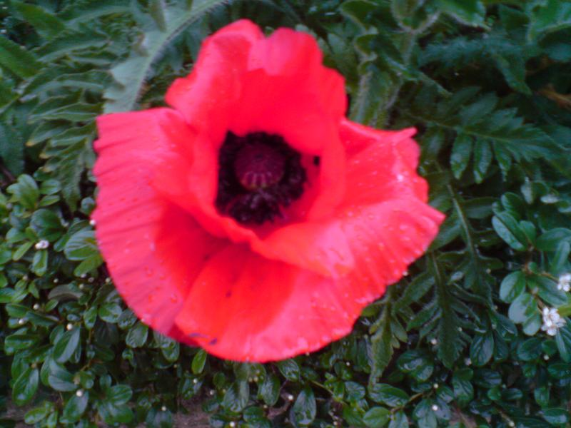 Papaver rhoeas flower in Kew Gardens, England.